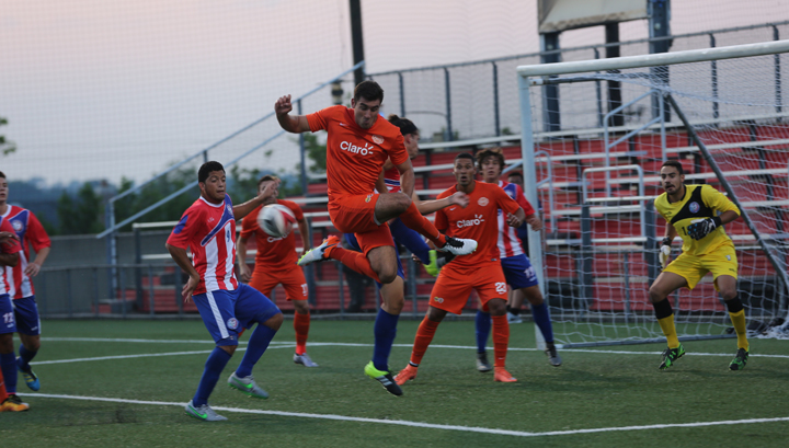 Ramon Del Campo hurdling over to the ball during the Clasico De Futbol match in New York's Belson Stadium.